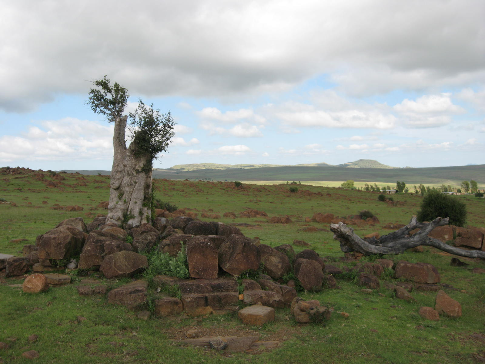 Unnamed Road, Lesotho